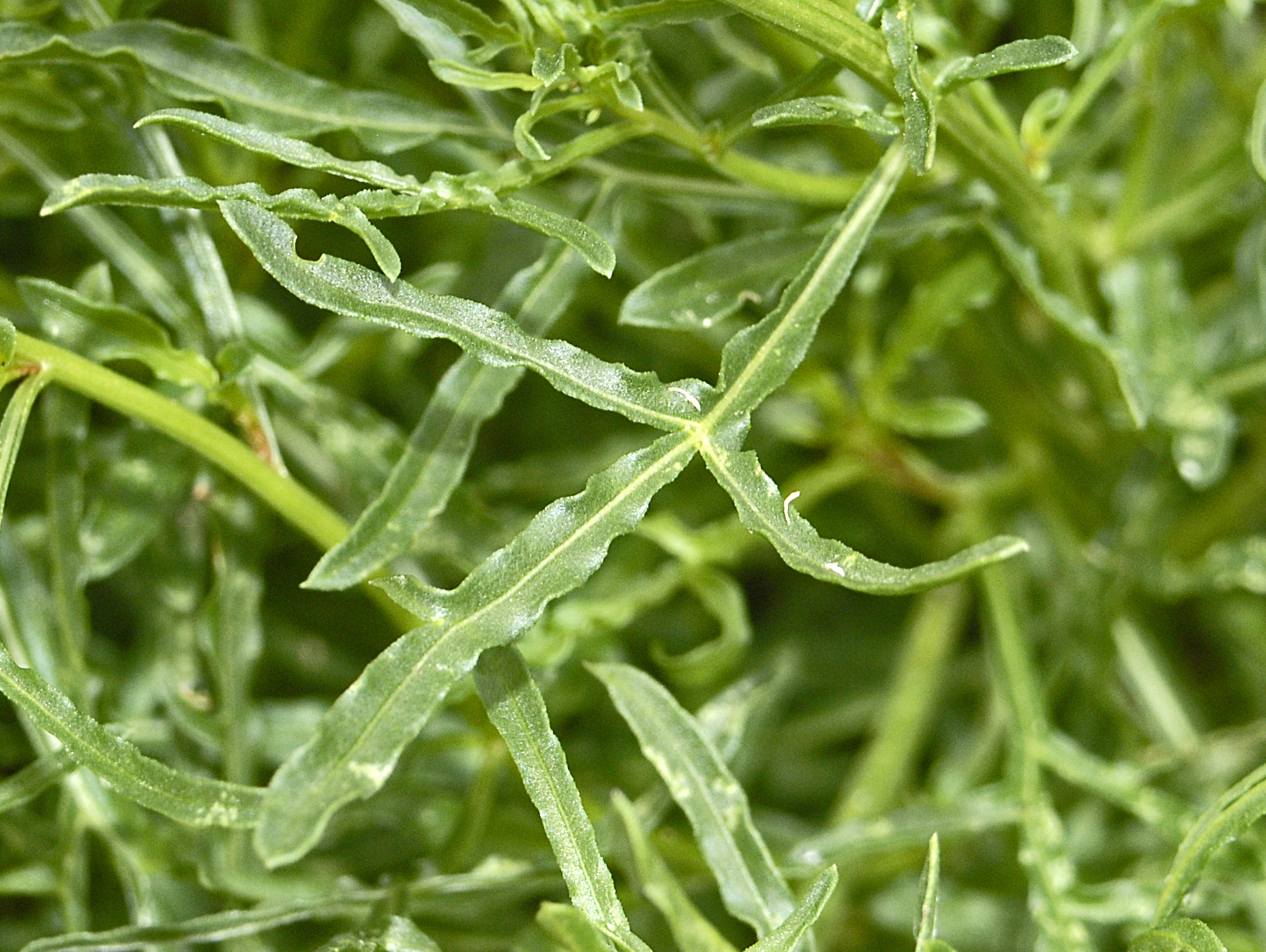 Leaf of Reseda phyteuma